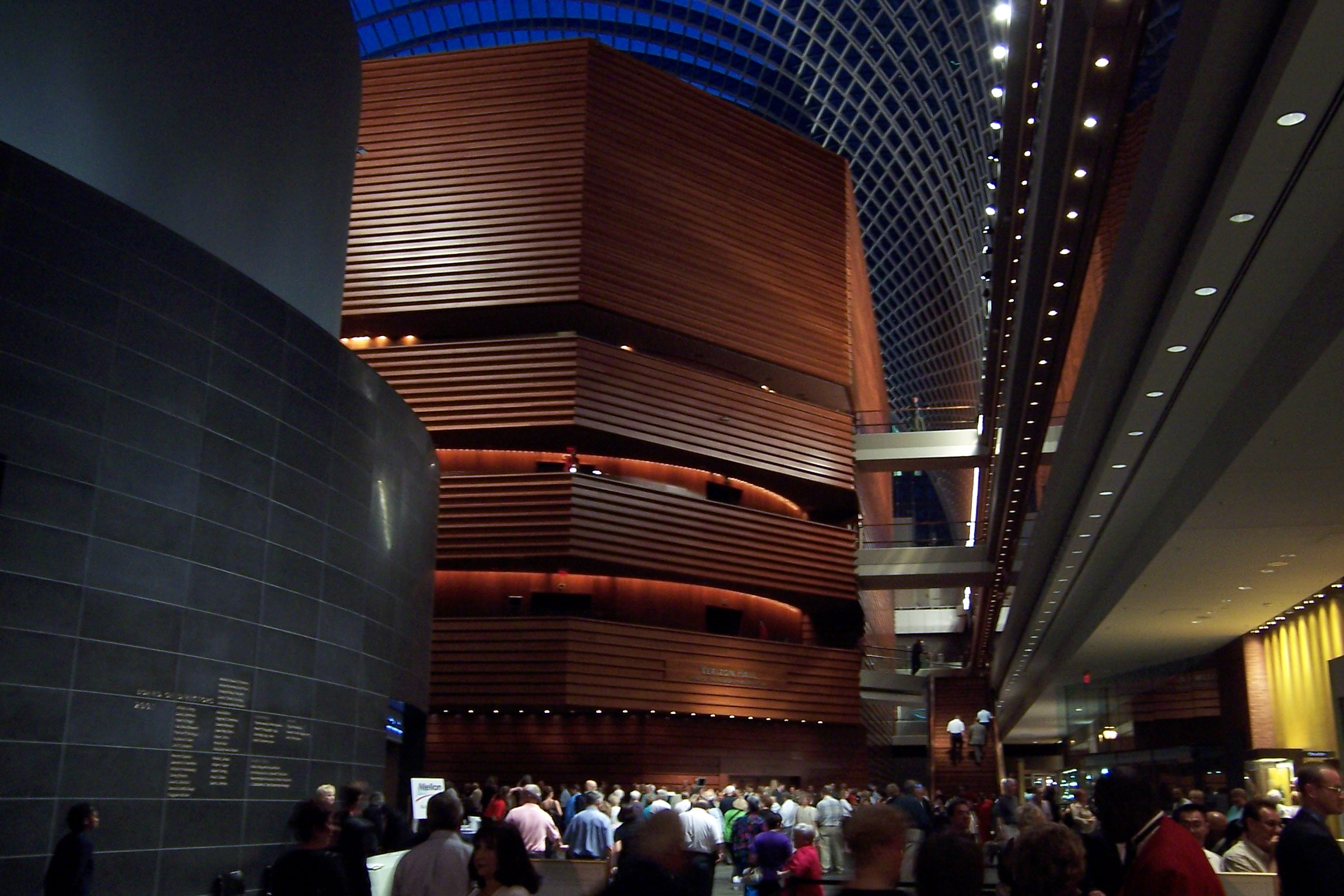 Kimmel Center for the Performing Arts, interior at night